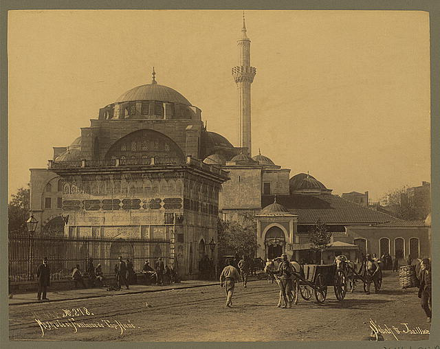 Kılıç Ali Pasha Mosque & Tophane Fountain between 1888 and 1910